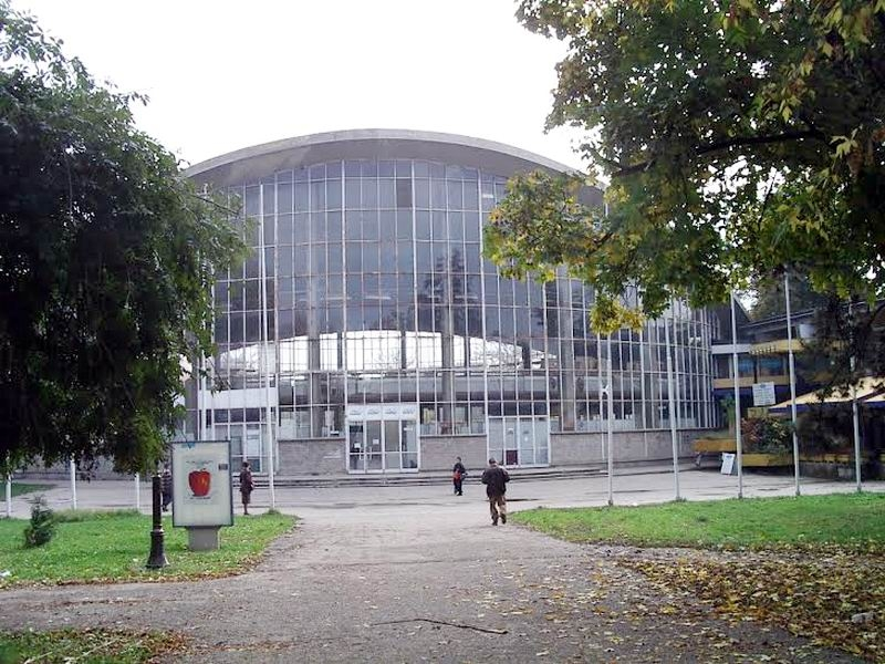 Sajkaca